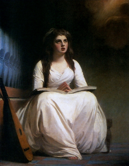 Lady Hamilton as St Cecilia